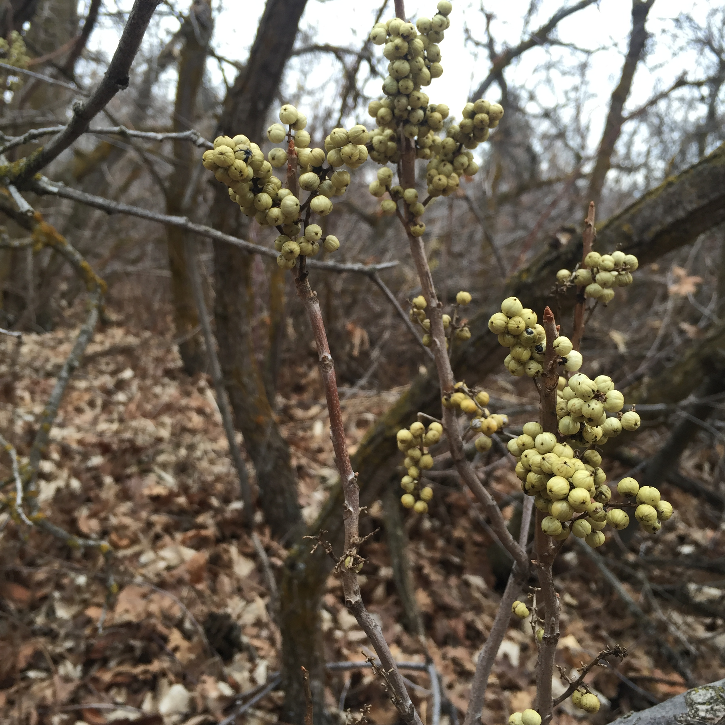 This is a photo of the dormant stage of the poison ivy plant. The berries and wood can still cause a skin reaction, even when the leaves are gone.